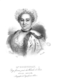 Portrait of Angélique Marguerite Le Boursier du Coudray (1712-1789) was a royal midwife in the court of Louis XV of France. Madame du Coudray. From Aloïs Delacoux, Biographie des sages-femmes célèbres, anciennes, modernes et contemporaines (Paris: Trinquart, 1834)